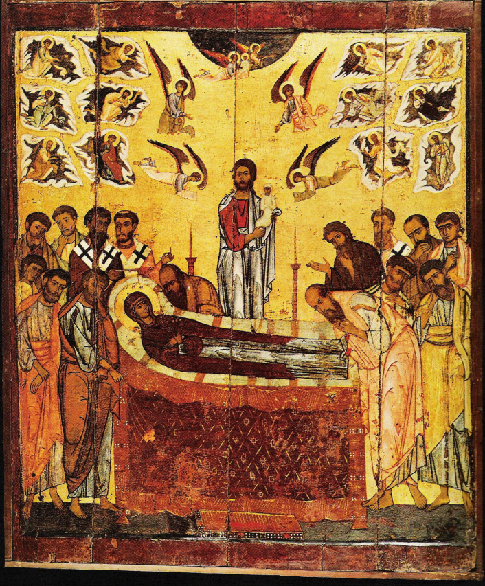 The Cloudy Assumtion, the icon from Desyatinny monastery